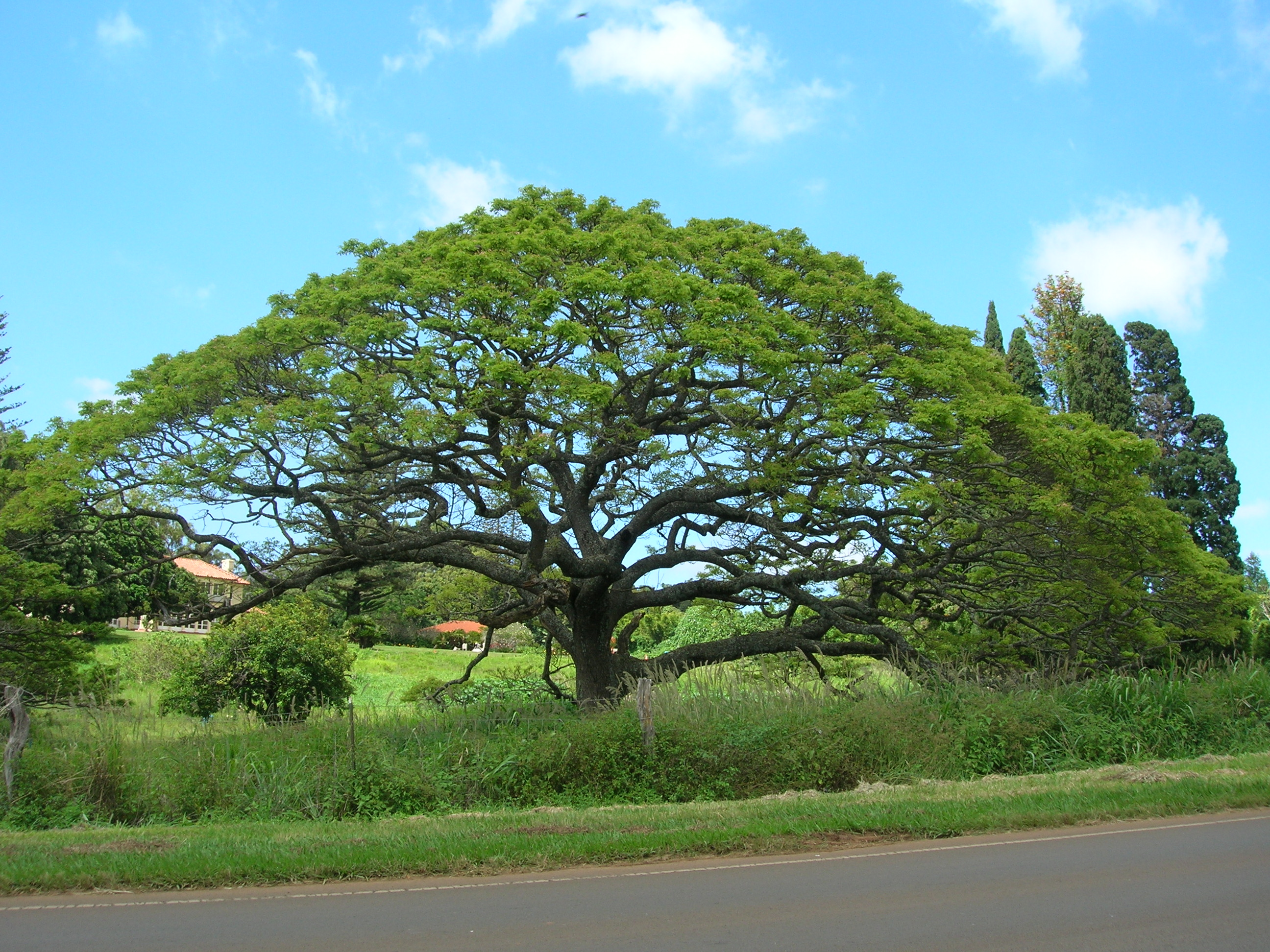 Samanea saman (habit). Location: Maui, Baldwin Ave Makawao